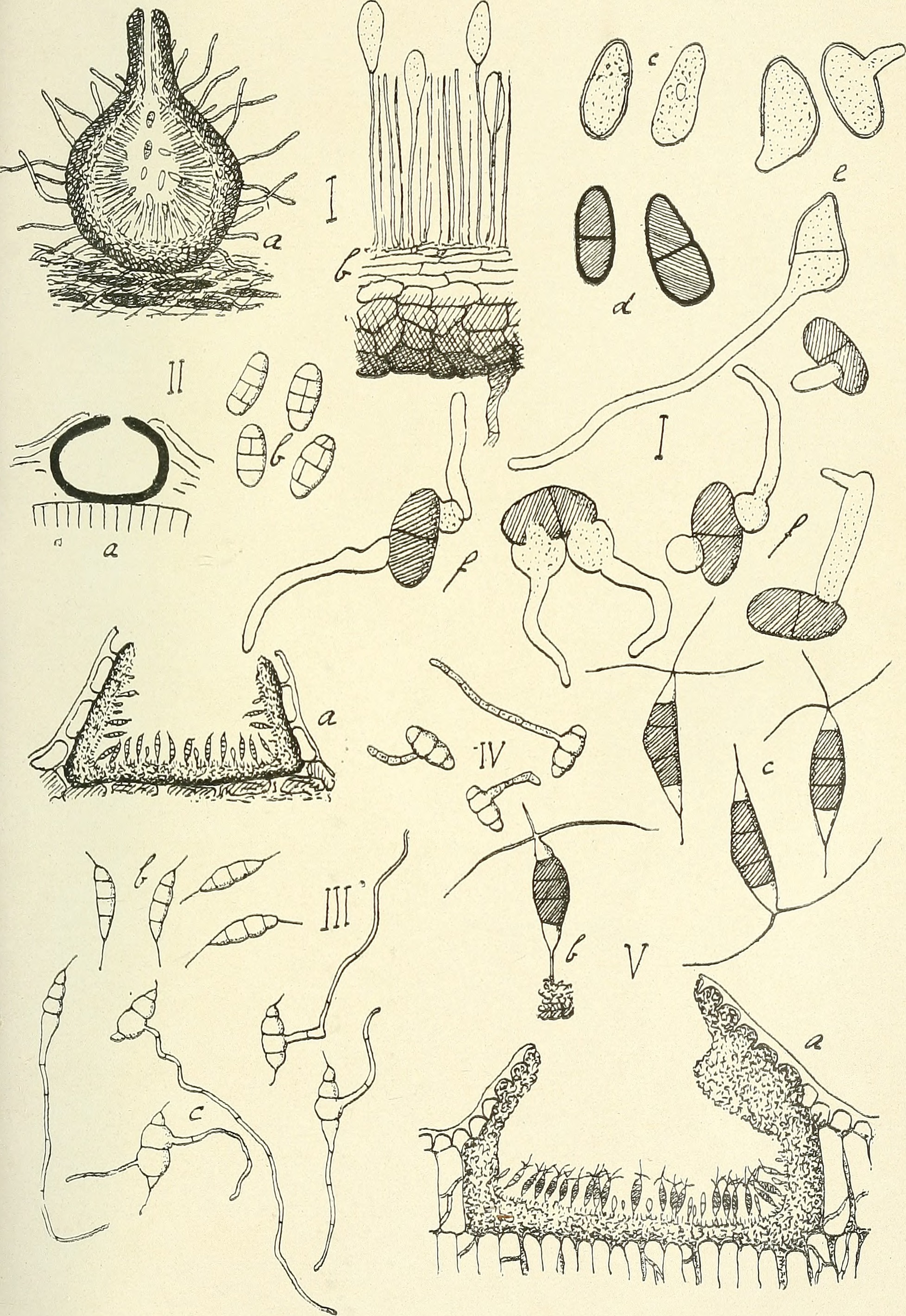 Title: Bulletin trimestriel de la Société mycologique de France Year: 1924-1999. (1920s) Authors: Société mycologique de France Subjects: Mycology; Fungi; Fungi Publisher: Paris : La Société Text Appearing Before Image: BULL. DE LA soc. MYC. de FRANCE. T. XXI, PL. 7, Text Appearing After Image: A. MAt;i;t.AM; ,h'\.